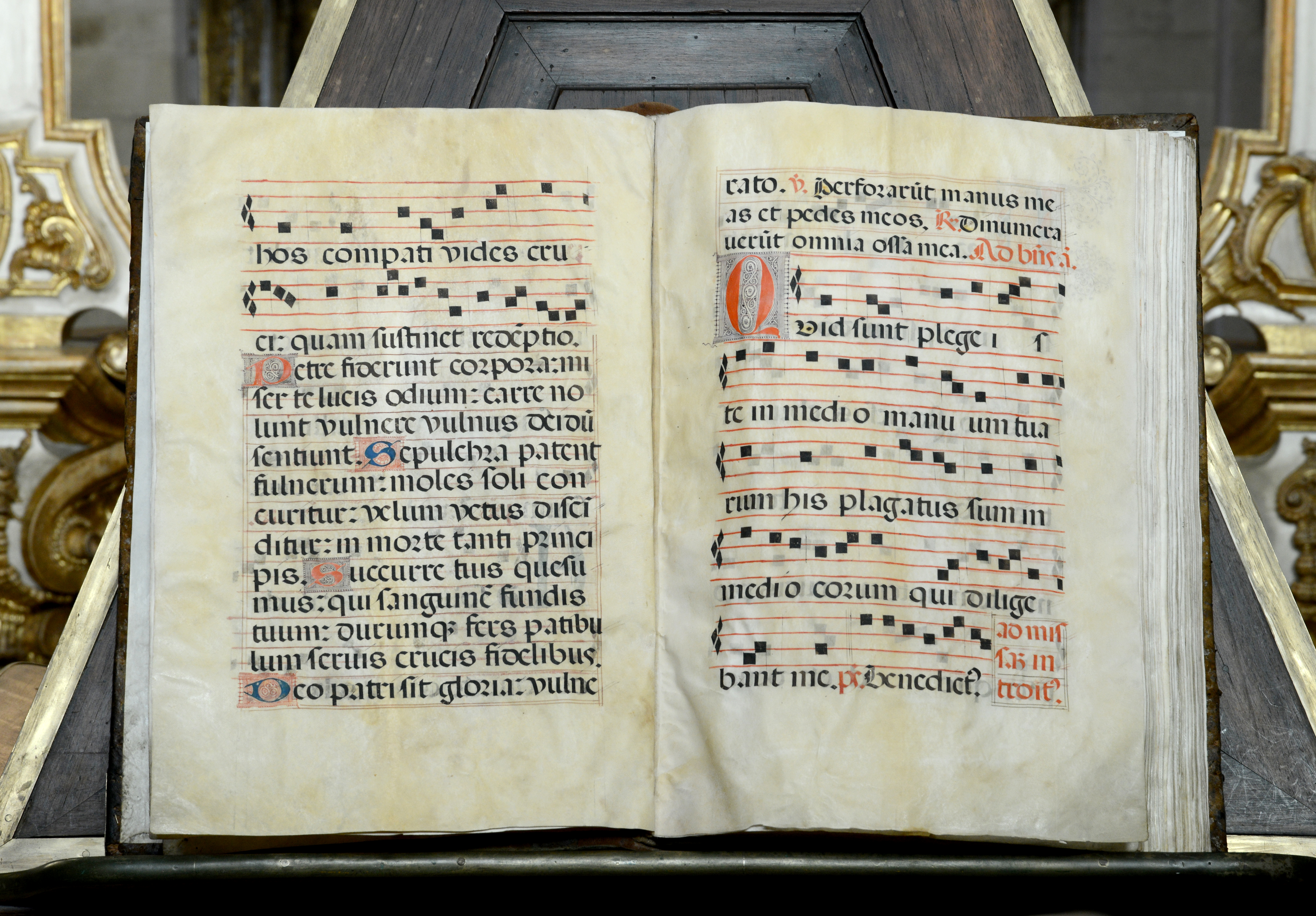 Church of the Monastery of Tibães, Portugal: antiphonary in the high choir